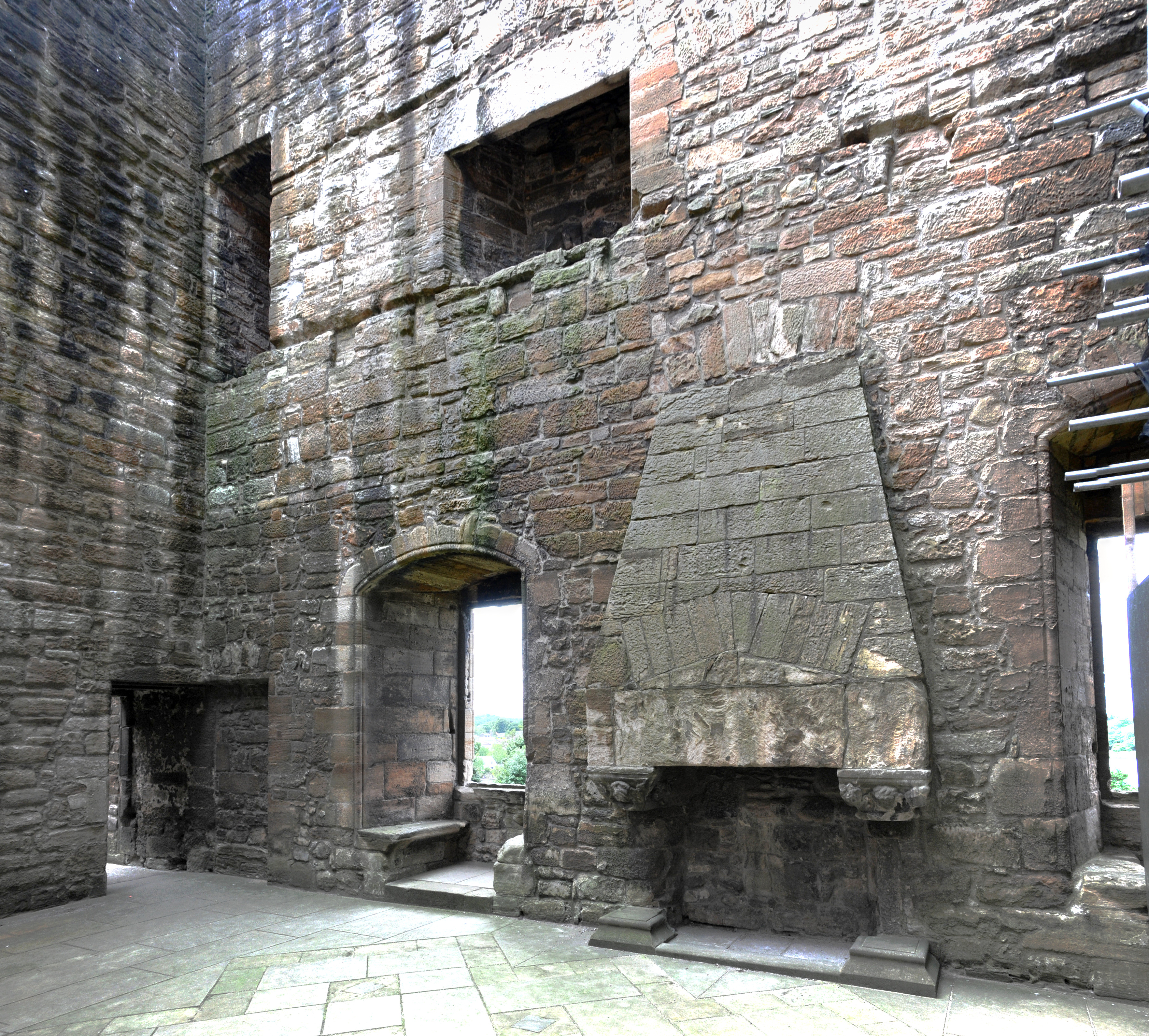 The audience chamber in the west wing of the Linlithgow Palace This image was created with Hugin